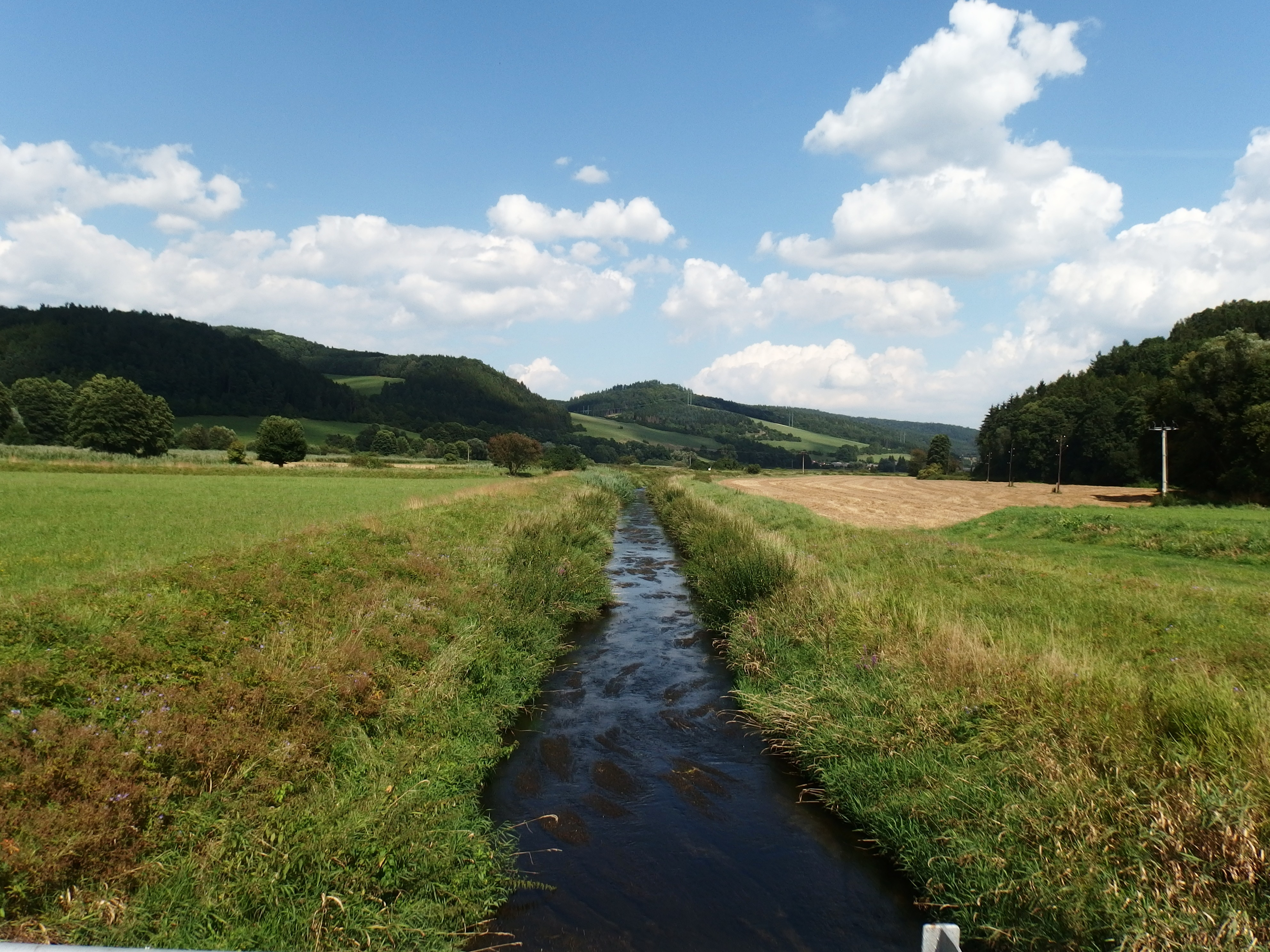 Městečko Trnávka, Svitavy District, Czech Republic, part Plechtinec.